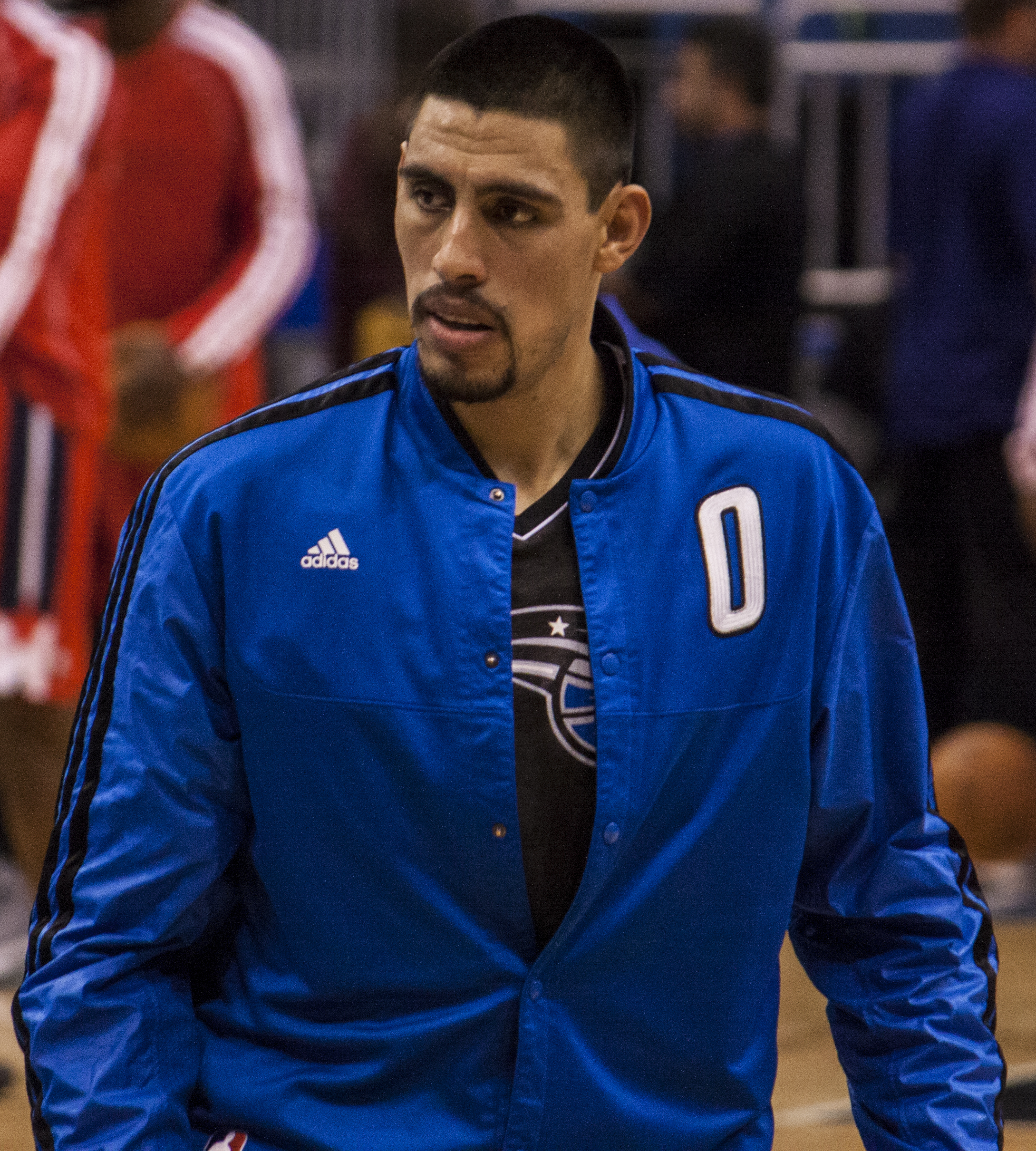 GUstavo Ayon of the Orlando Magic